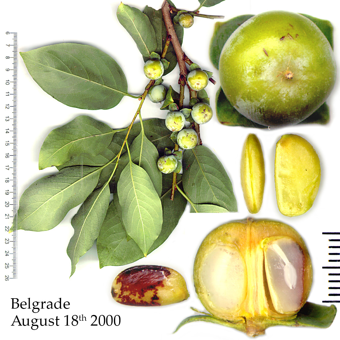 Physiological seed maturity of Diospyros lotus